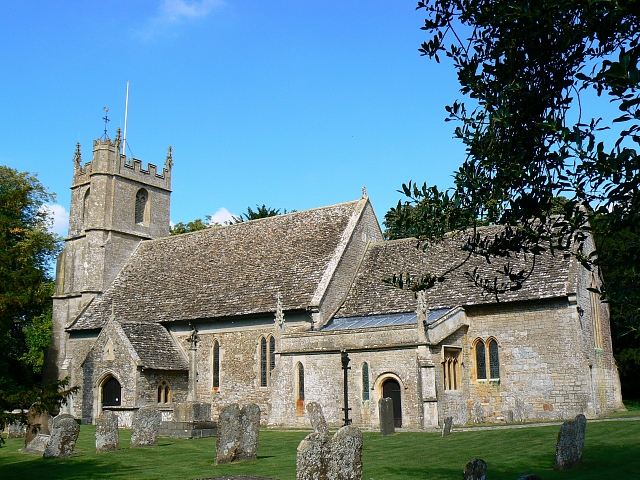 St Peter ad Vincula church, Broad Hinton A view from the south of the parish church, which dates from the 13th century. There is an interesting sundial on this elevation above the porch. Separate images of this have been submitted.